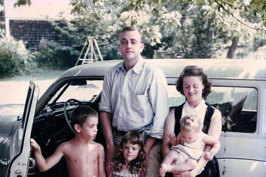 Kurt Vonnegut with his wife Jane and their three children (from left to right): Mark, Edie and Nanny.